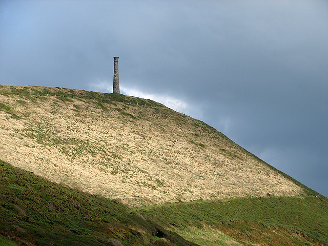 Pendinas viewed from Tanybwlch Surmounted by the cannon shaped Wellington monument which is visible from most areas of Aberystwyth. The light area of grass is the result of a fire in June 2007.